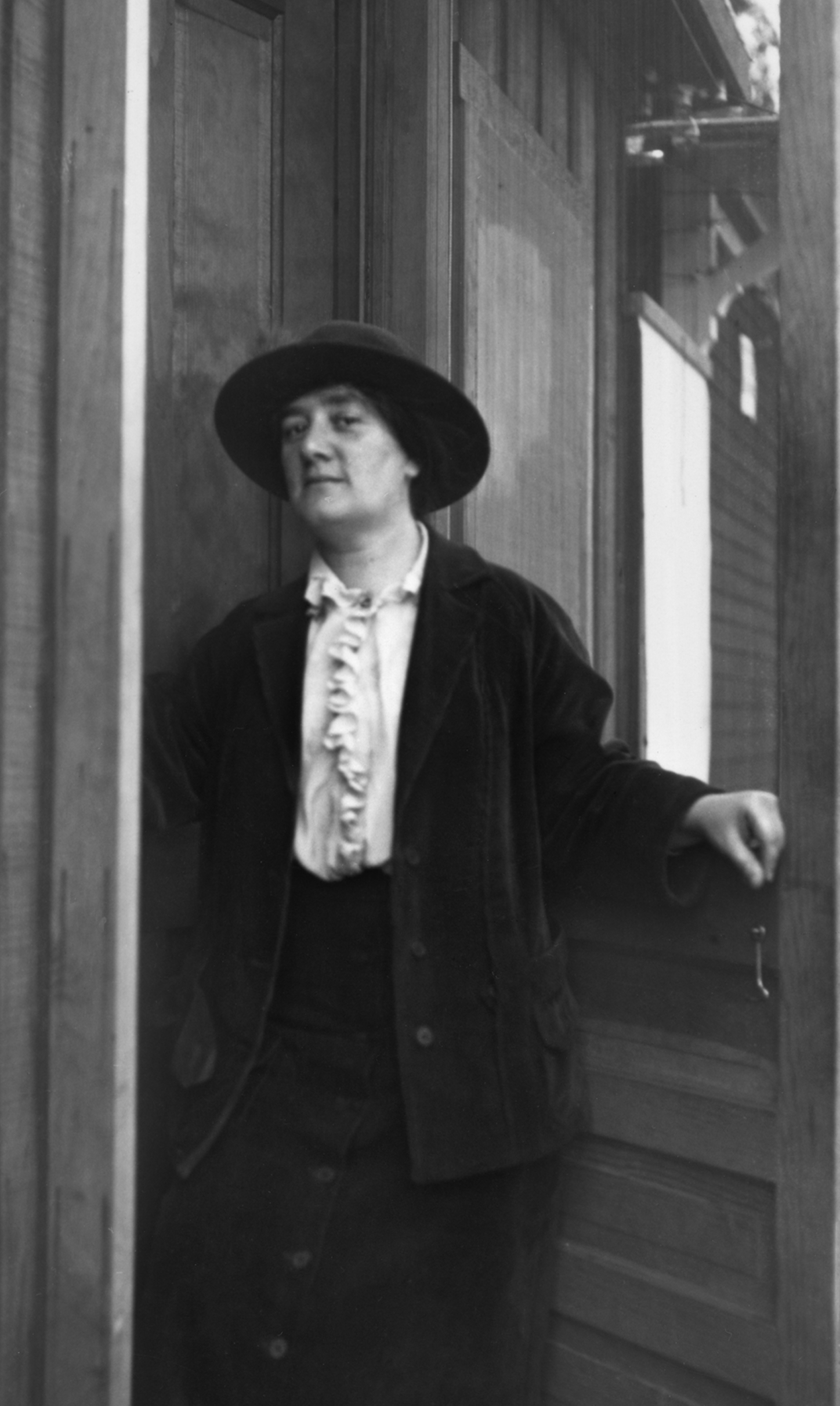 Margaret Turnbull, 42 years old